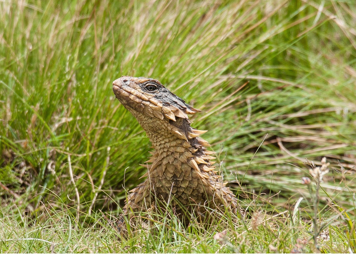 Sungazer (S. giganteus) in typical "sungazing" stance